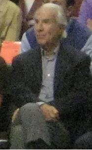 Ed Snider - 2008-10-10 New York Knicks @ Philadelphia 76ers exhibition game